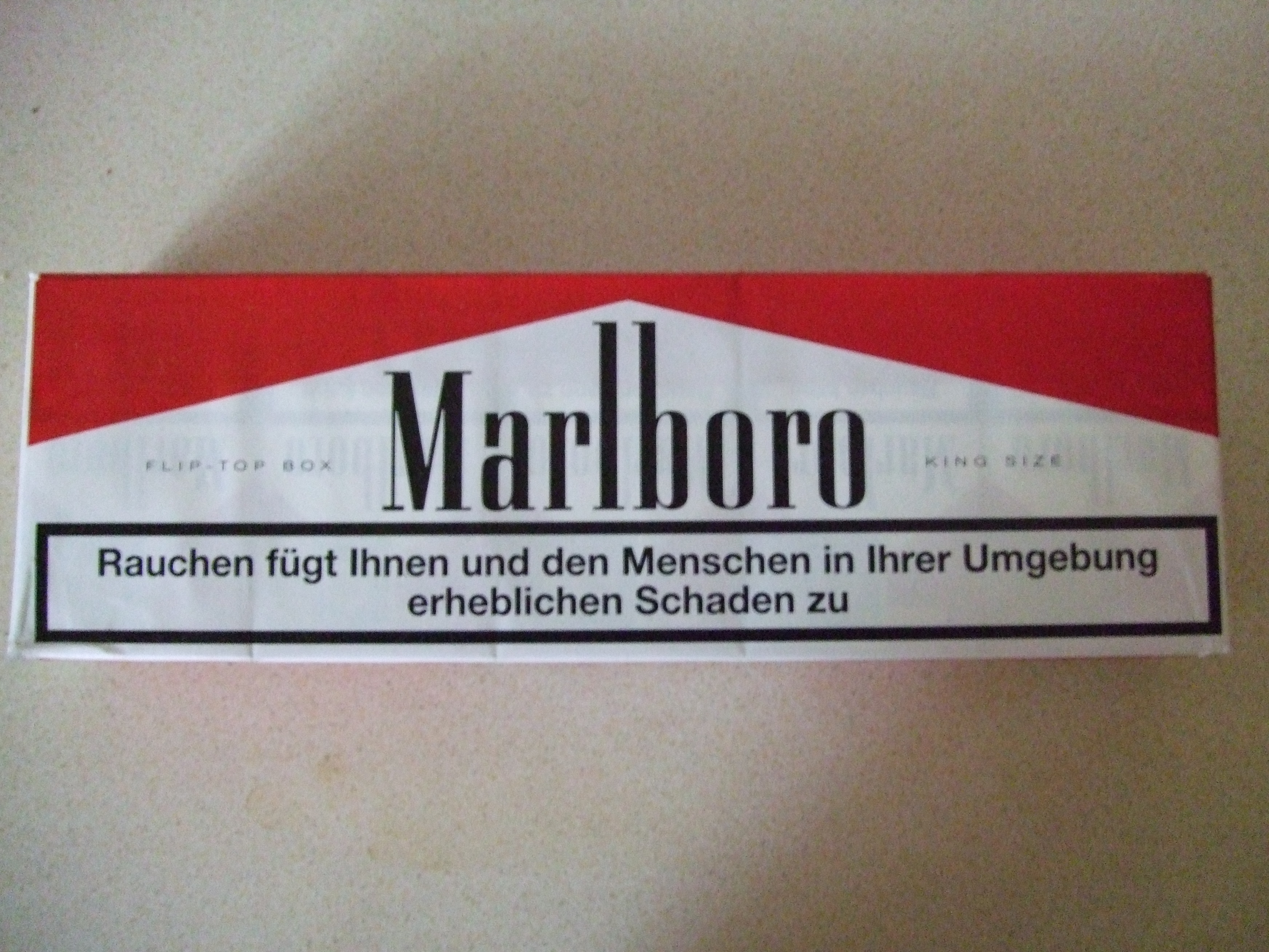 Carton of German Marlboro cigarettes.